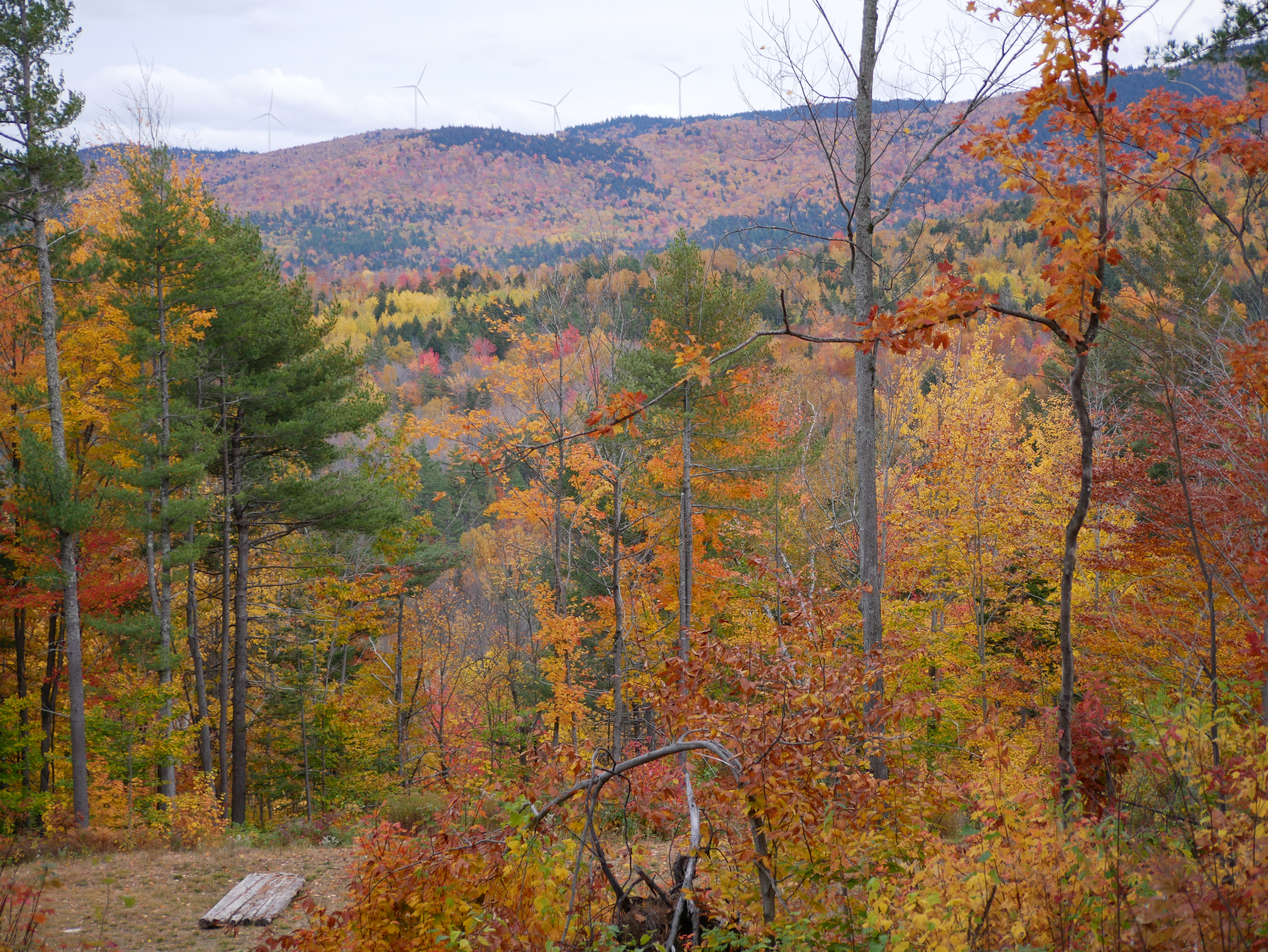 Spruce Mountain Wind Farm in fall as seen from nearby Bryant Mountain in the west.